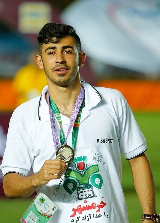 Ehsan Pahlevan